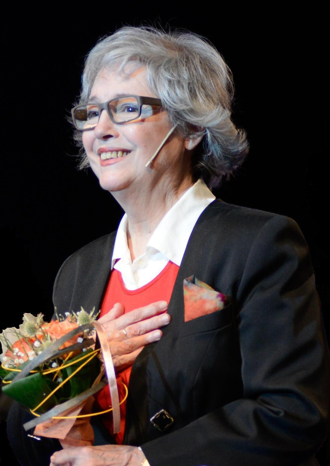 Slovak actress Božidara Turzonovová during Vitajte doma, a talk show presented live at the Žilina City Theater, Slovakia, photographed by Eduard Kudláč, using NikonD600.